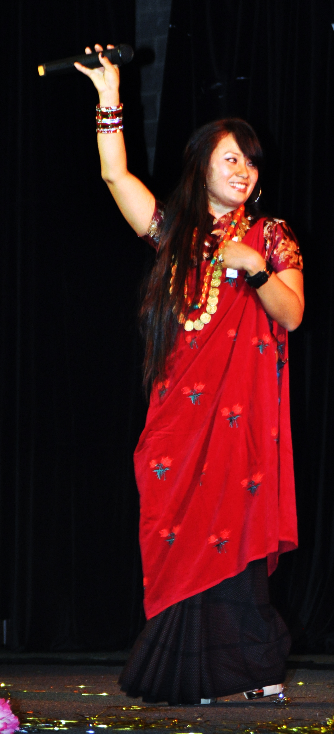 Mausami Gurung, Nepalese singer performing in Sydney 2011 at Losar, organised by Tamu Samaj